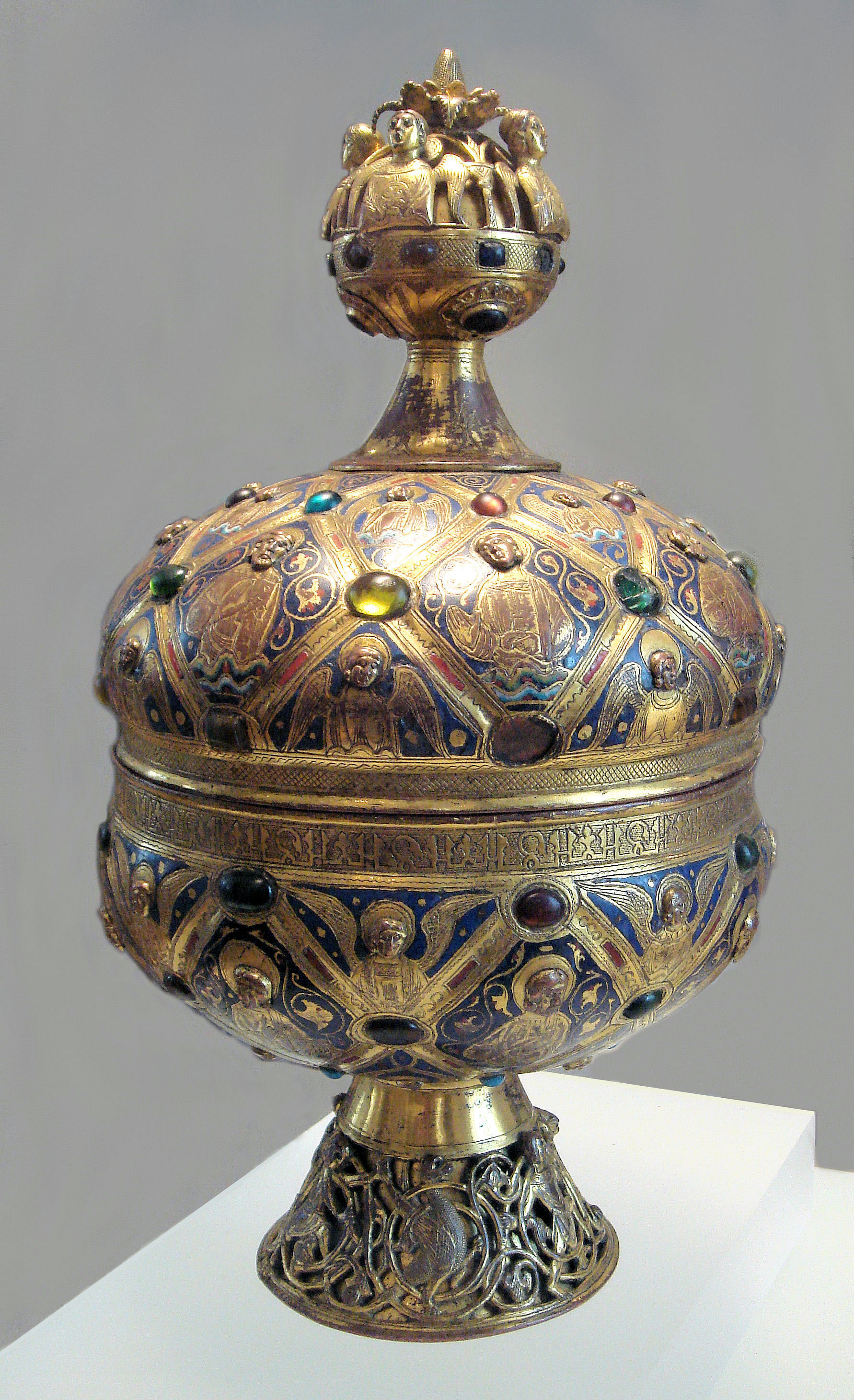 Limoges enamel ciborium pseudo Kufic circa 1200, detail